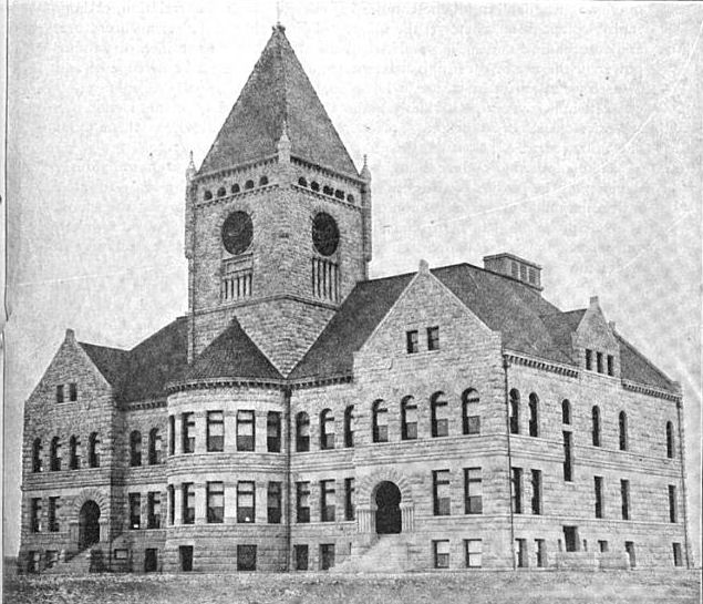 The "Central Building" of Great Falls High School (GFHS) in 1900. Great Falls High School is located in the town of Great Falls, Montana, in the United States. Founded in 1890, the school did not get its own building until the construction of the "Central Building" at 1400 First Avenue North in 1896. GFHS moved to its current building at 1900 2nd Avenue South in 1930. The "Central Building" was occupied by Paris Gibson Junior High School from 1931 to 1975. Since 1975, it has operated as the Paris Gibson Square Museum of Art. The structure was added to the National Register of Historic Places in 1975.